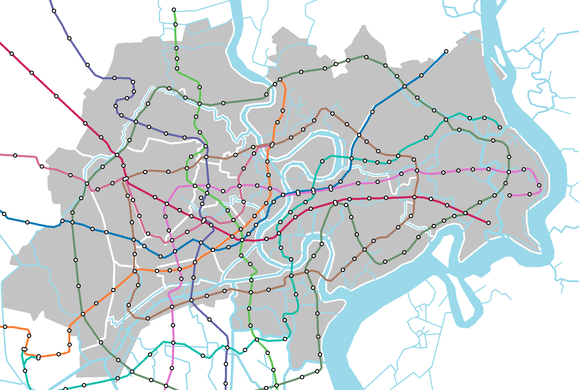 Ho Chi Minh City (Saigon) Metro masterplan map